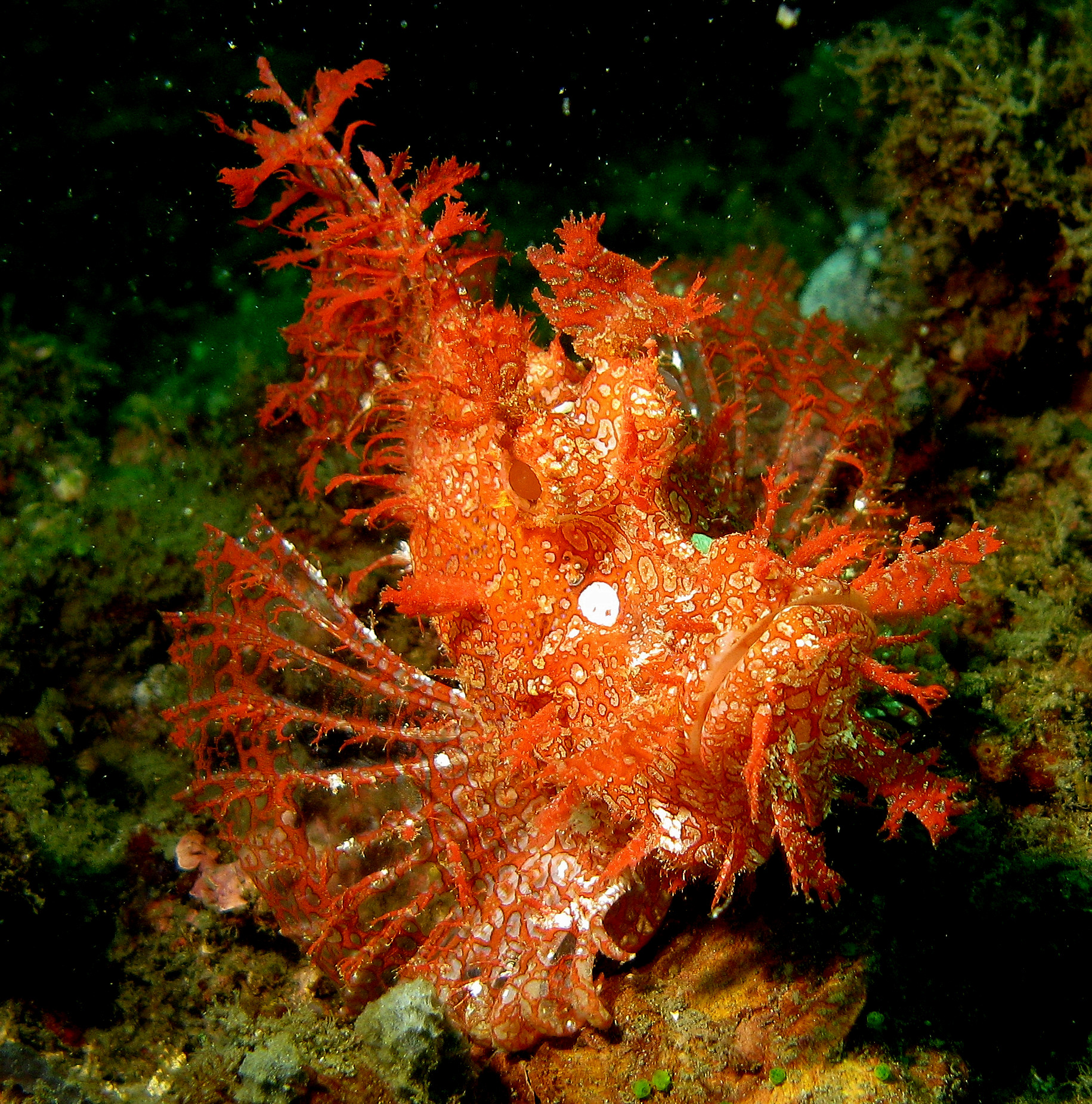 Rhinopias frondosa - Lacy Scorpionfish, Weedy Scorpionfish